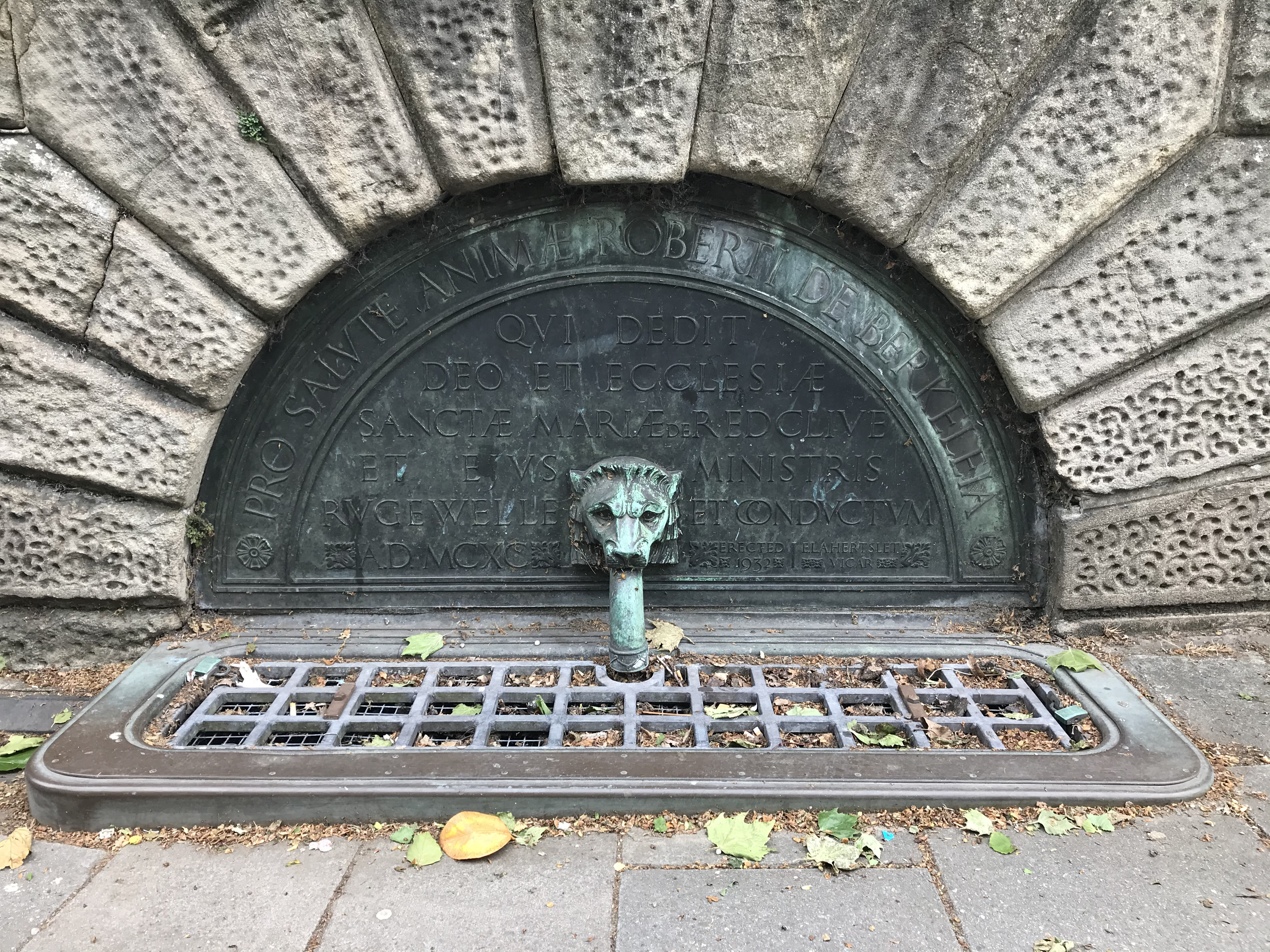 Image shows the brass drinking fountain and inscription on the end of the St Mary Redcliffe Conduit